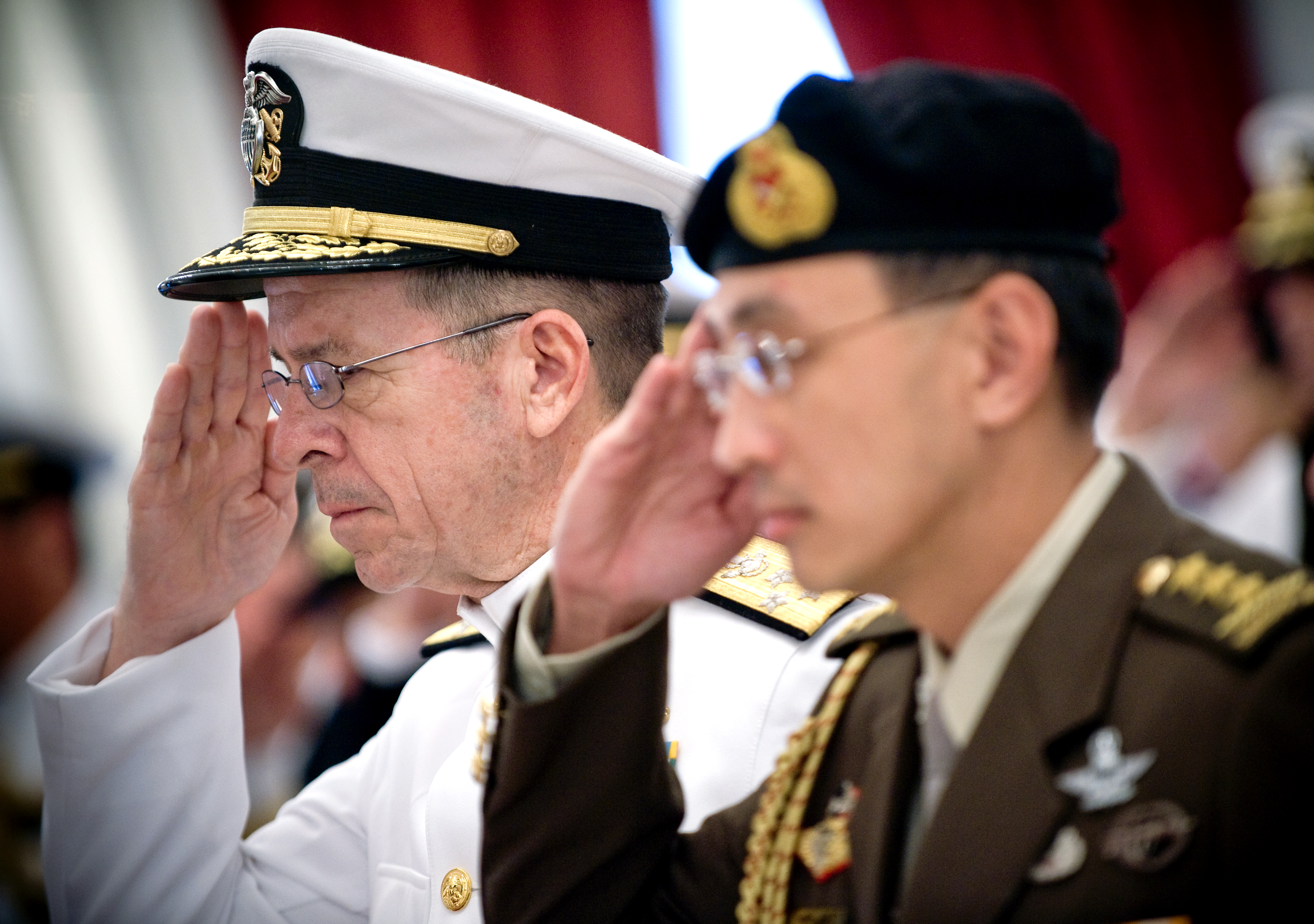 U.S. Navy Admiral Mike Mullen, chairman of the Joint Chiefs of Staff, and Singaporean Chief of Defence Force Desmond Kuek Bak Chye salute during the playing of the Singapore National Anthem prior to the presentation of the Darjah Utama Bakti Cemerlang (Tentera) (Distinguished Service Order (Military)) to Mullen by President of Singapore S. R. Nathan, 29 May 2008.